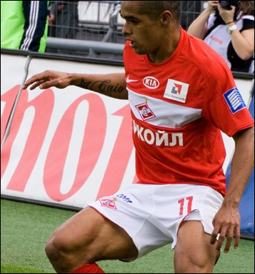 Welliton, Brazilian footballer